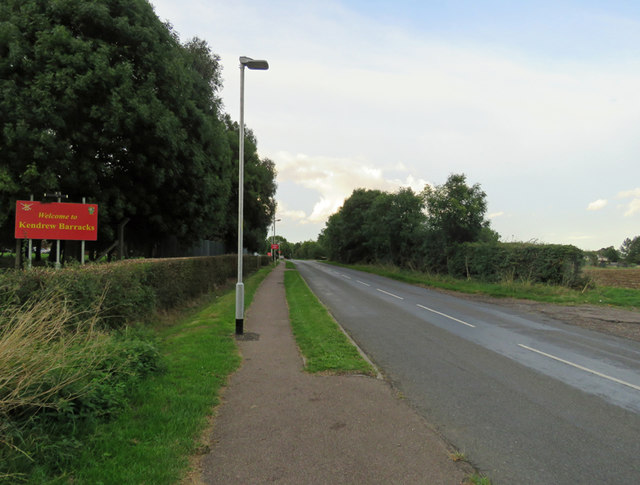 Rogue's Lane towards Kendrew Barracks